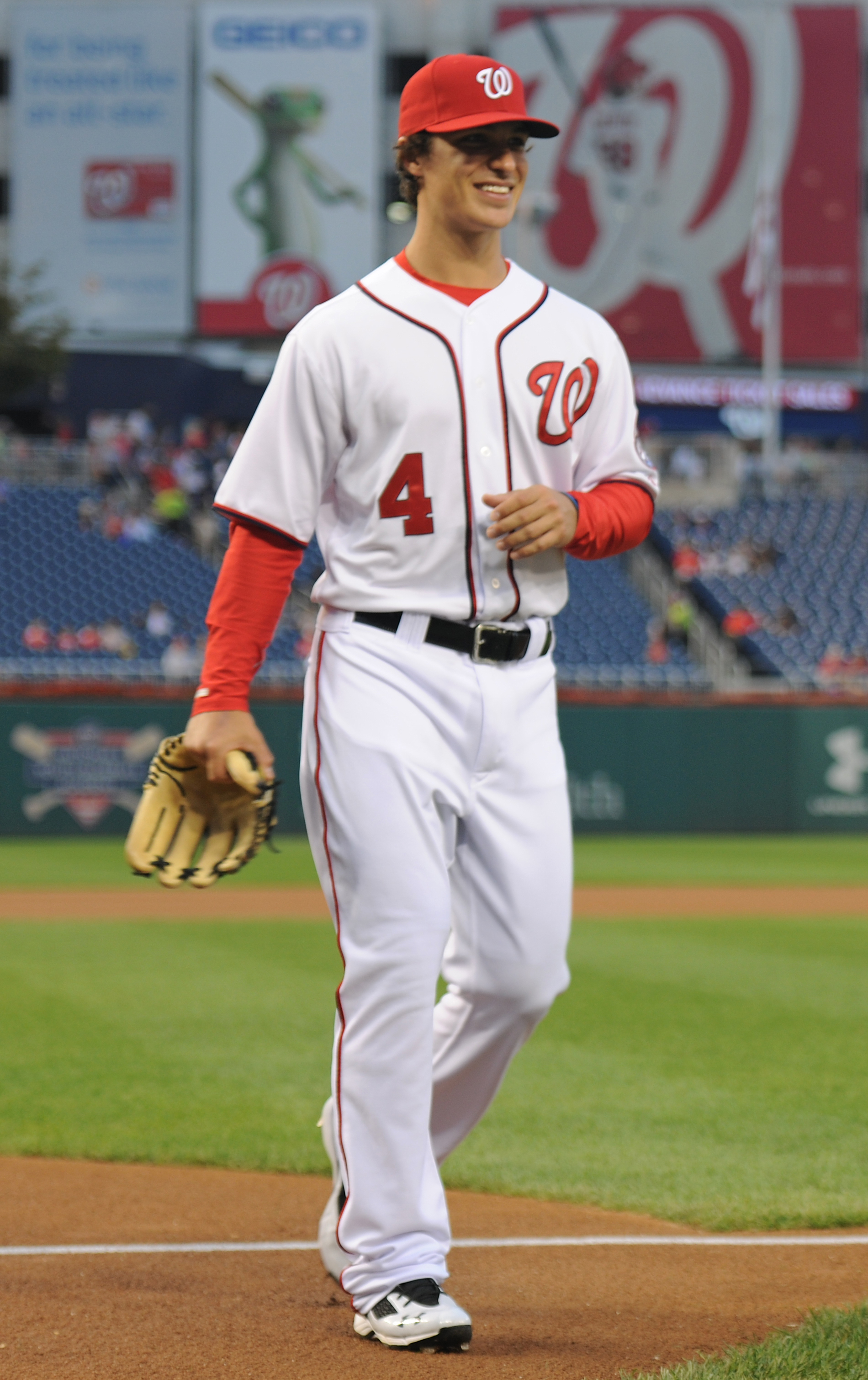 Washington Nationals mascot, Screech, escorts Staff Sgt. Capri Vazquez off the field during Air Force Night at Nationals Park, Washington, D.C., Sept. 19, 2013. Vazquez was selected among hundreds of other Airmen from the National Capital Region to make the Ceremonial First Pitch. Vazquez is an 11th Wing, Command Post senior controller. (U.S. Air Force photo/Airman 1st Class Erin O'Shea/Released) The player is likely Zach Walters.